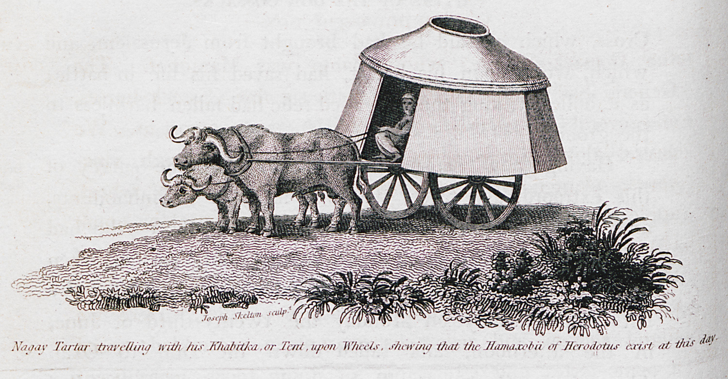 Edward Daniel Clarke. Travels in various countries of Europe Asia and Africa. Part the First Russia Tartary and Turkey (1810). Part the Second Greece Egypt and the Holy Land (1813). London, R. Watts for Cadell and Davies